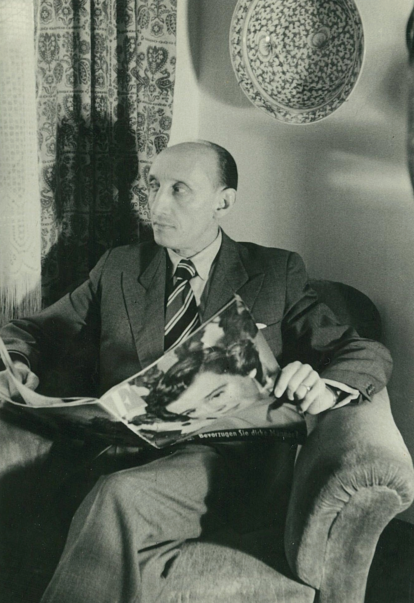 German artist Gustav Hilbert. This photograph shows him in 1956 at his home 14 Treptower Park in East Berlin, German Democratic Republic.